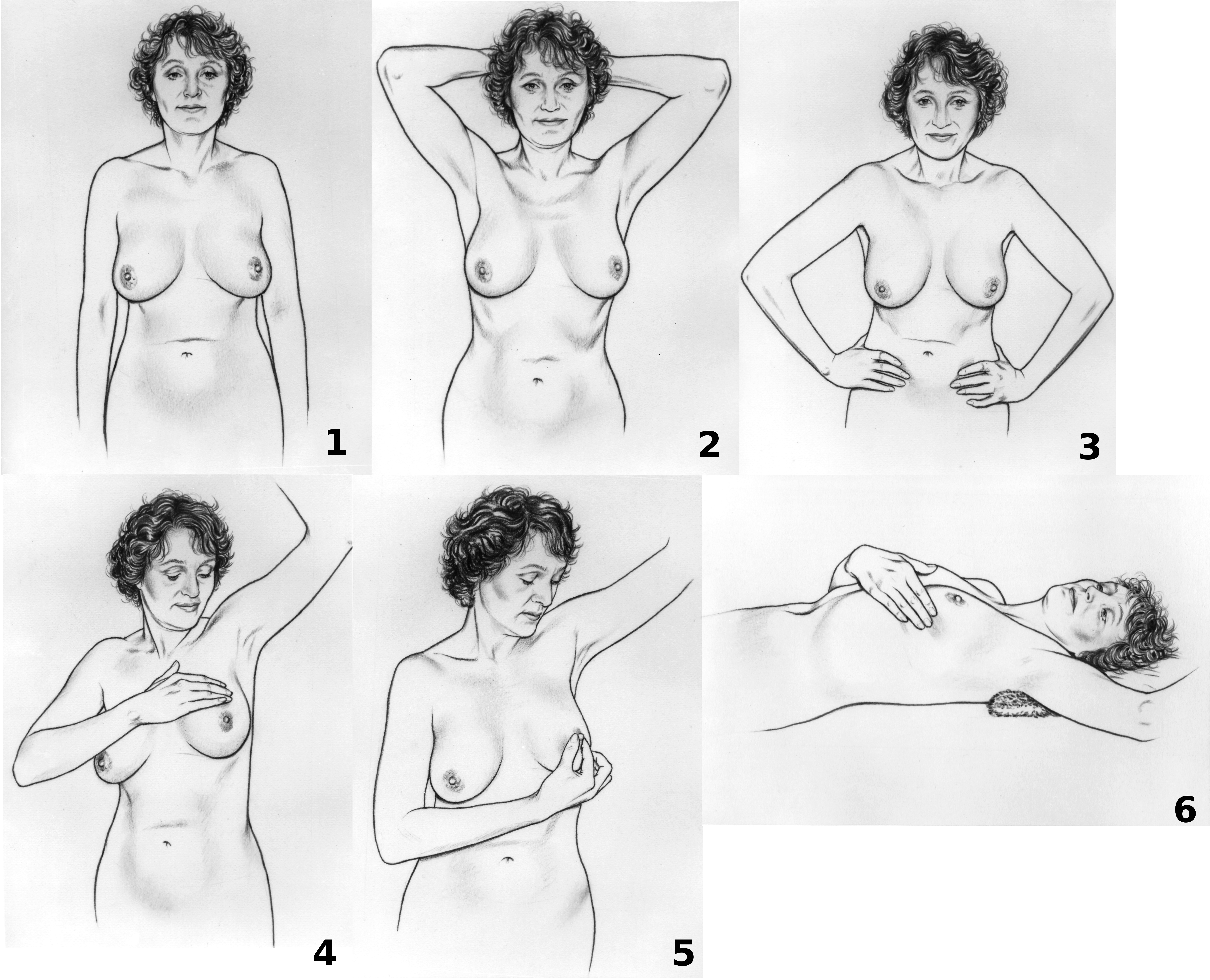 A series of six illustrations showing how to do breast self examination (BSE)